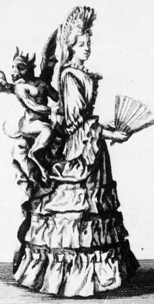 Caricature on bustles. Print c. 1700.